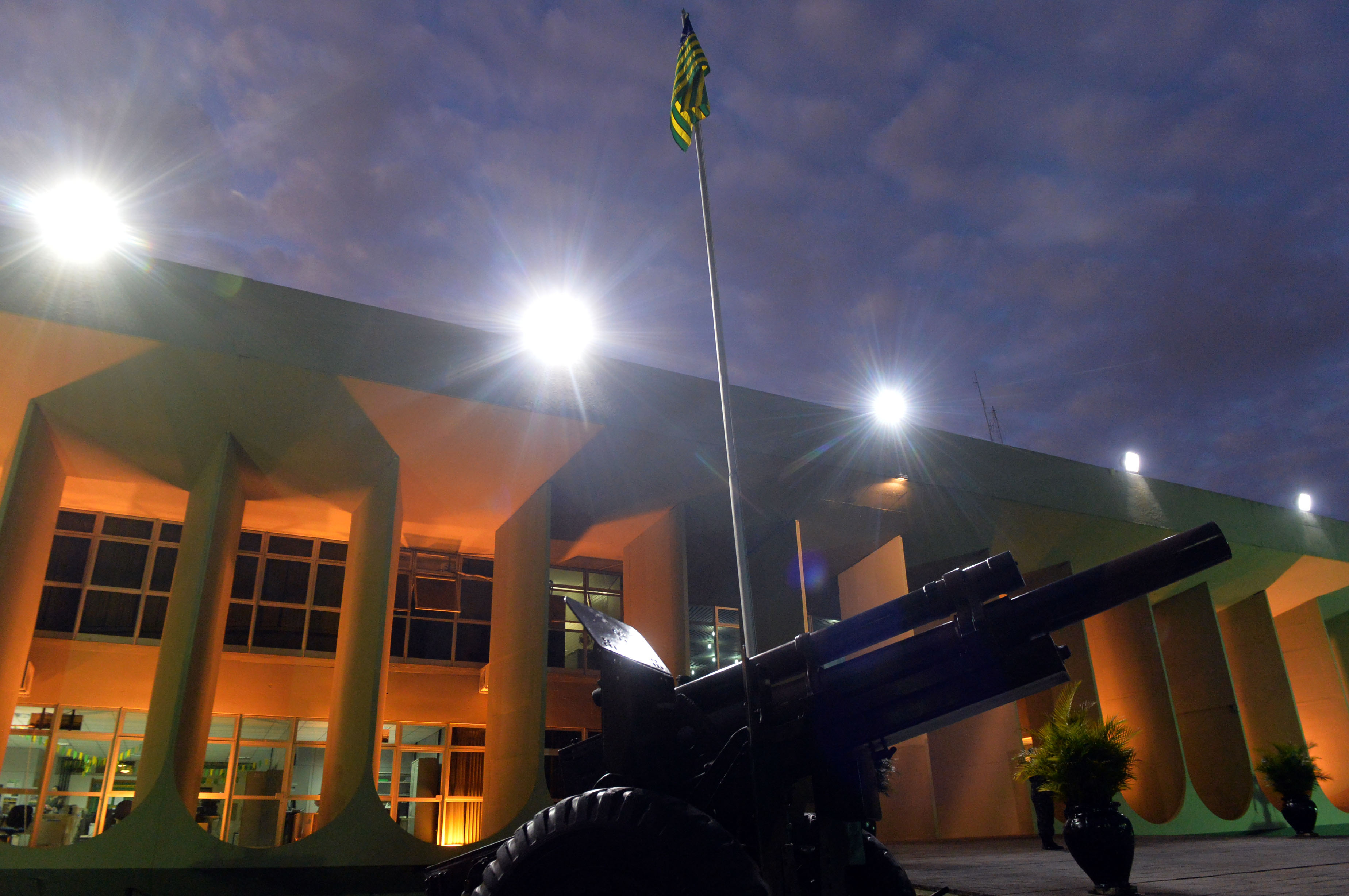 Northeastern Military Command - Recife, Pernambuco, Brazil